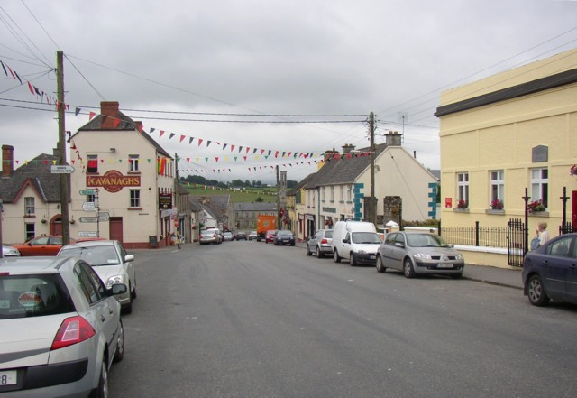 View down the main street, Borris, Co. Carlow. View from outside O'shea's bar.